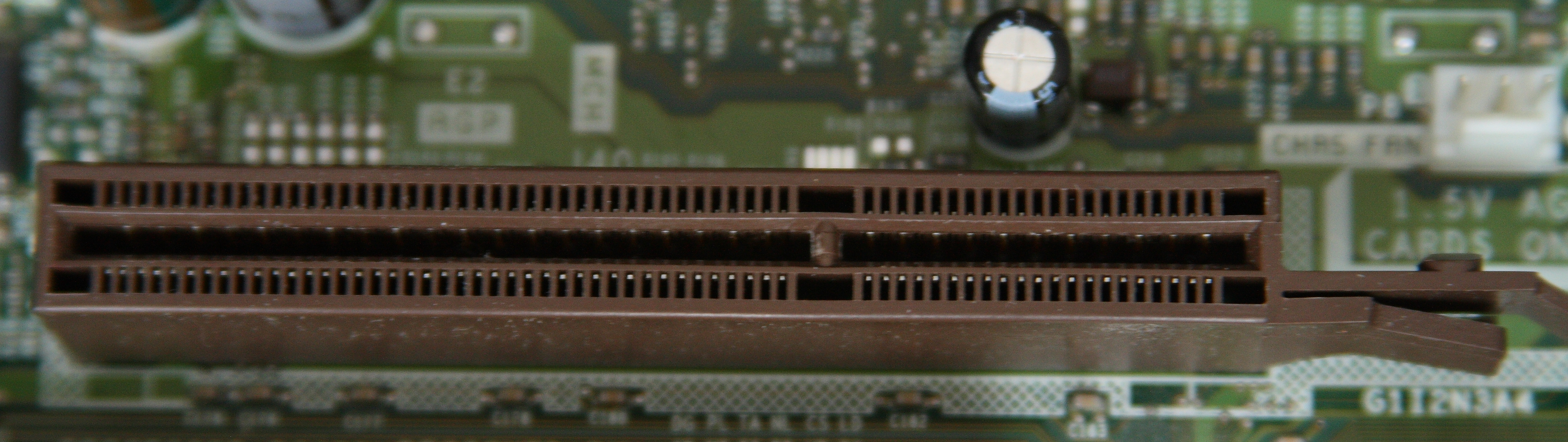 AGP slot